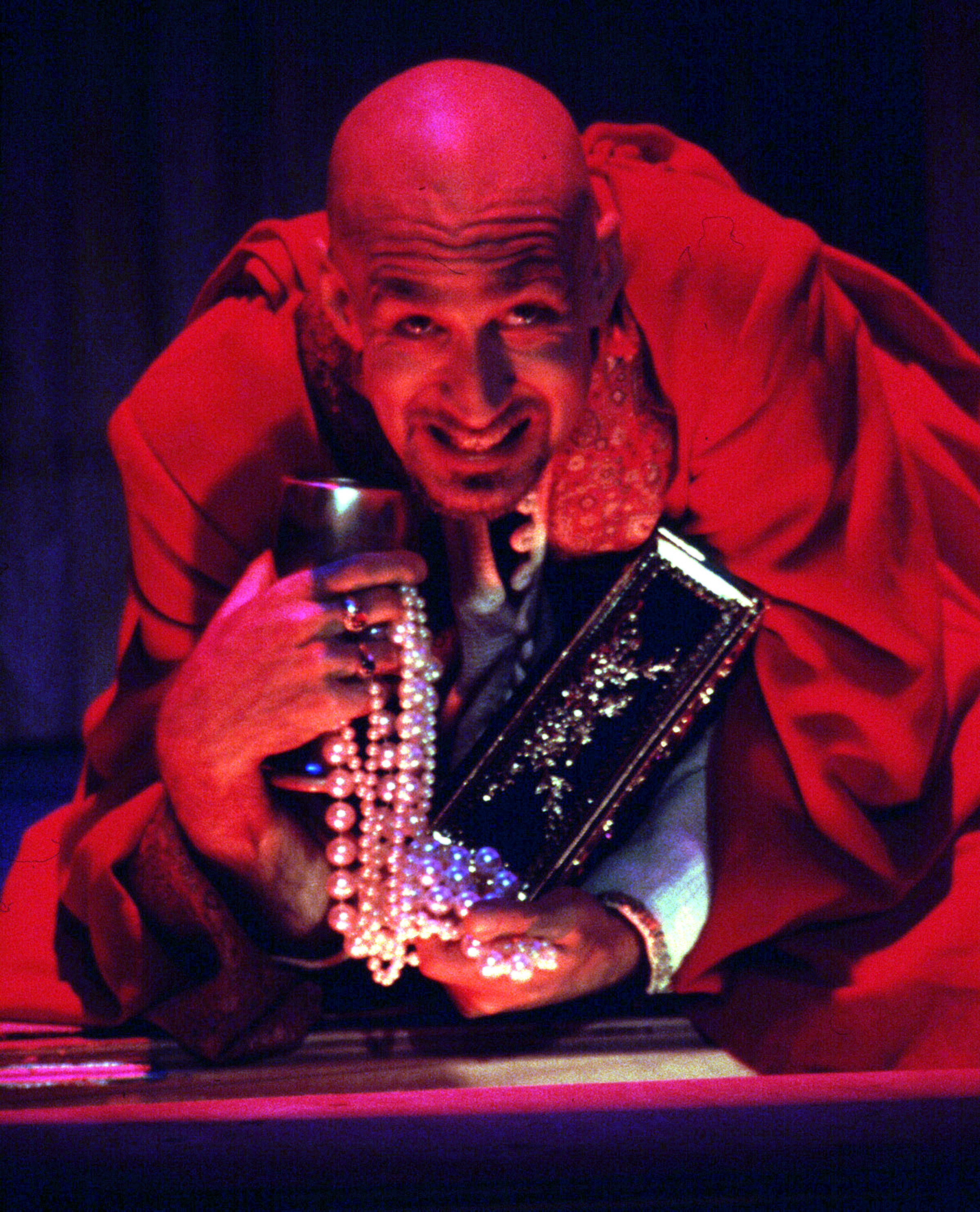 Volpone (Stephen Moorer) from a Pacific Repertory Theatre production at the Golden Bough Playhouse in Carmel, Ca., Sept., 2000